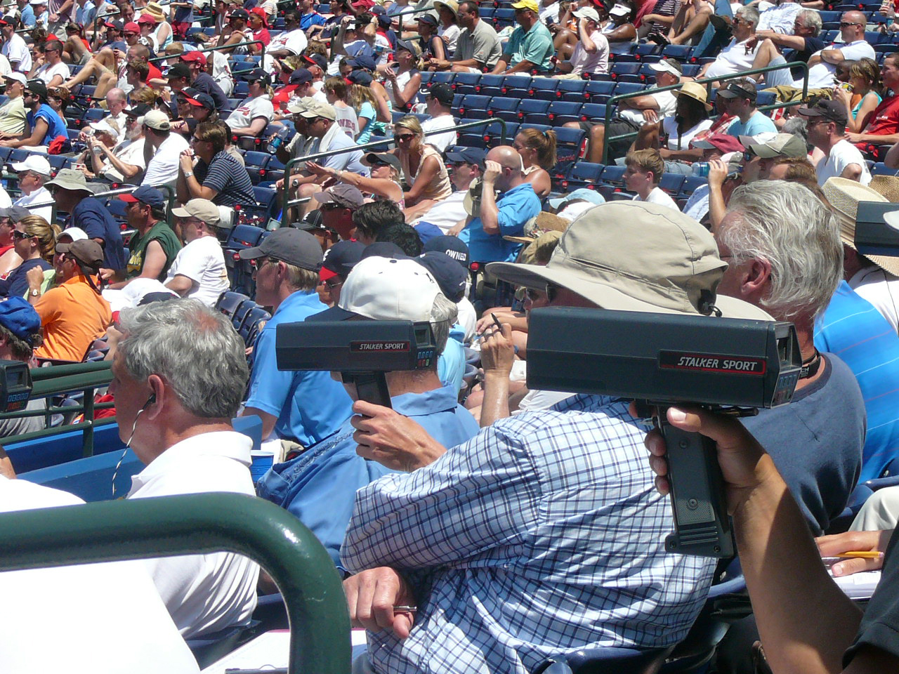 Please attribute photo with author's name if used somewhere other than Wikipedia.